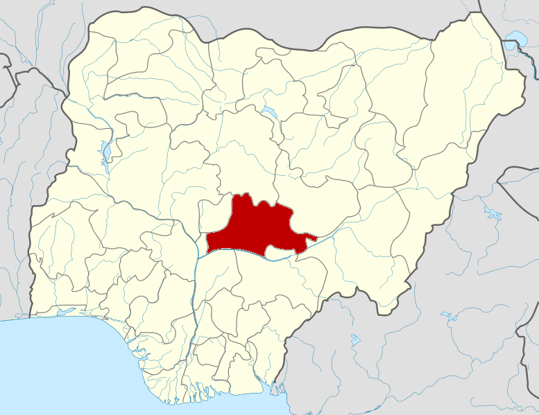 Map locator of Nigeria.